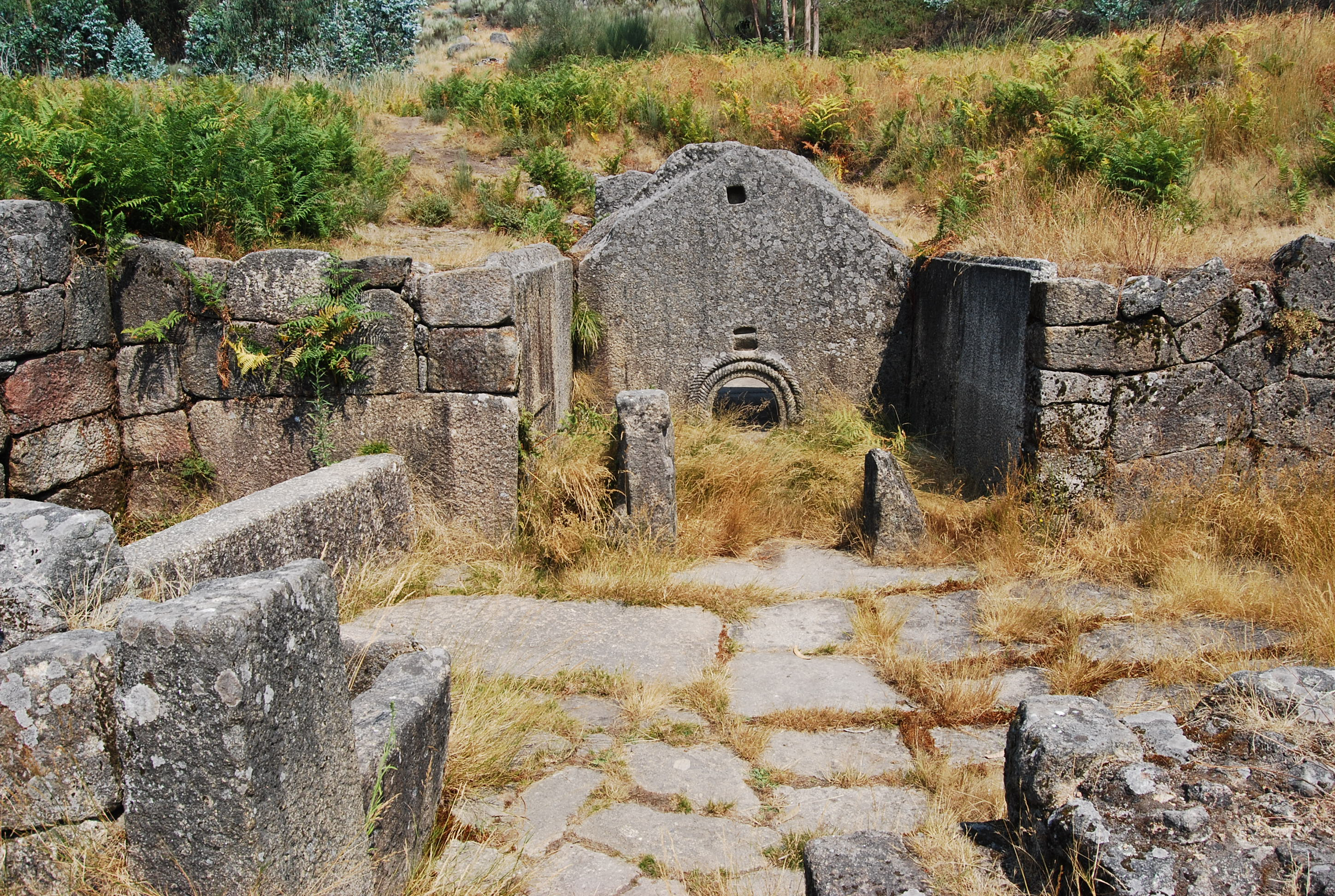 This file was uploaded for Wiki Loves Monuments in Portugal with the unique identifier 70495.